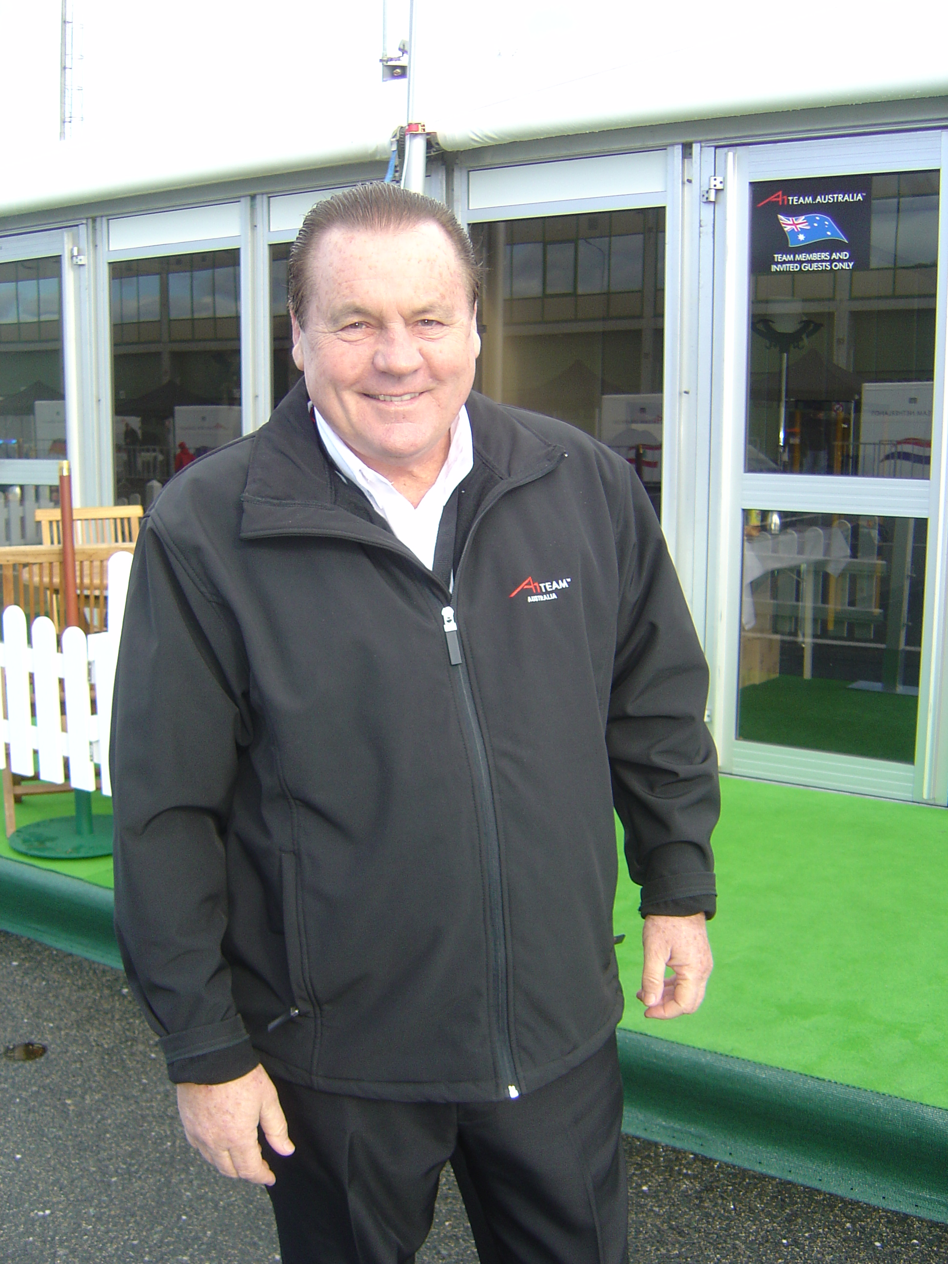 Alan Jones: the photo was taken during 2007's A1GP race weekend at Brno